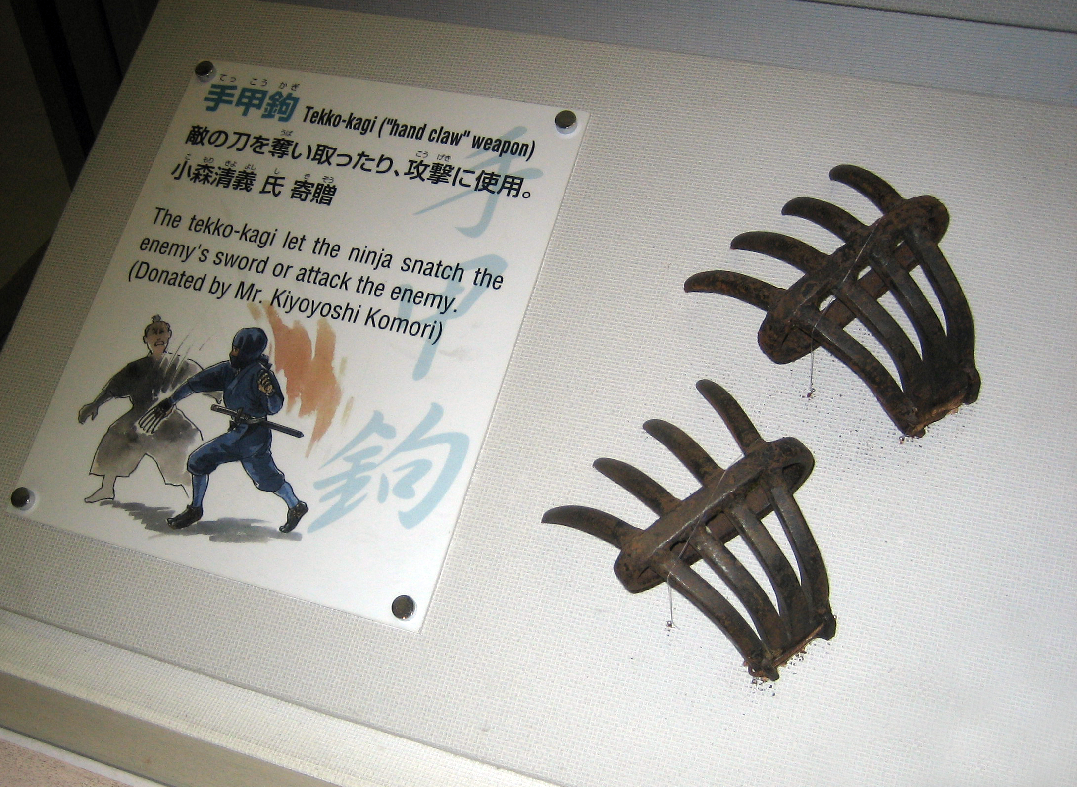 Tekko-kagi ("Hand claw" weapon). Iga Ninja Museum.